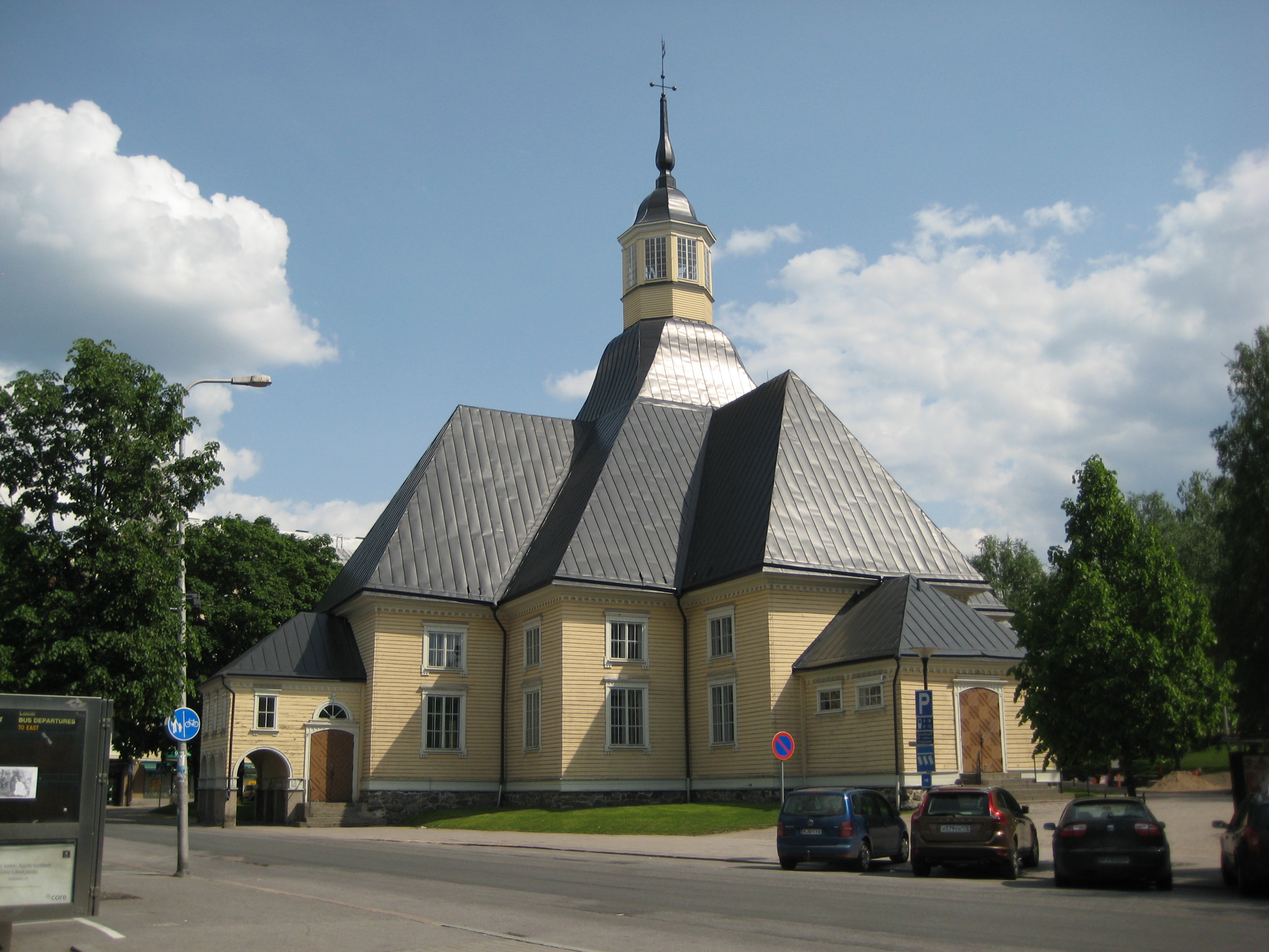 Lappeenranta, Church of Saint Mary